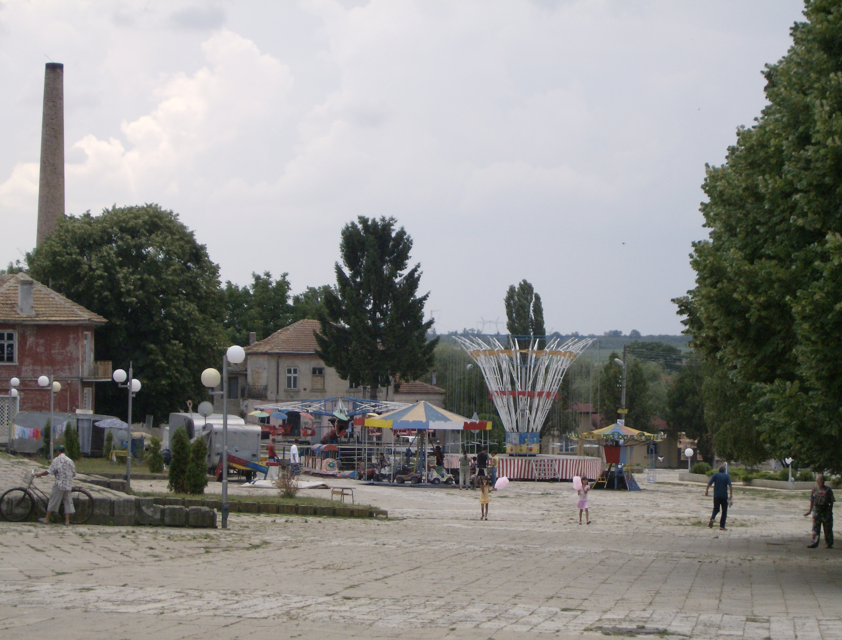 Valchi dol